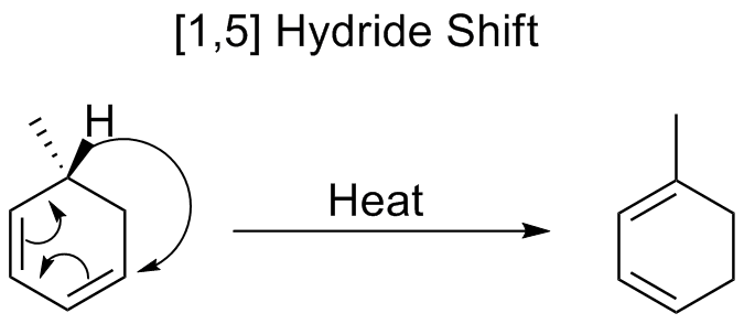 [1,5] Hydride Rearrangement